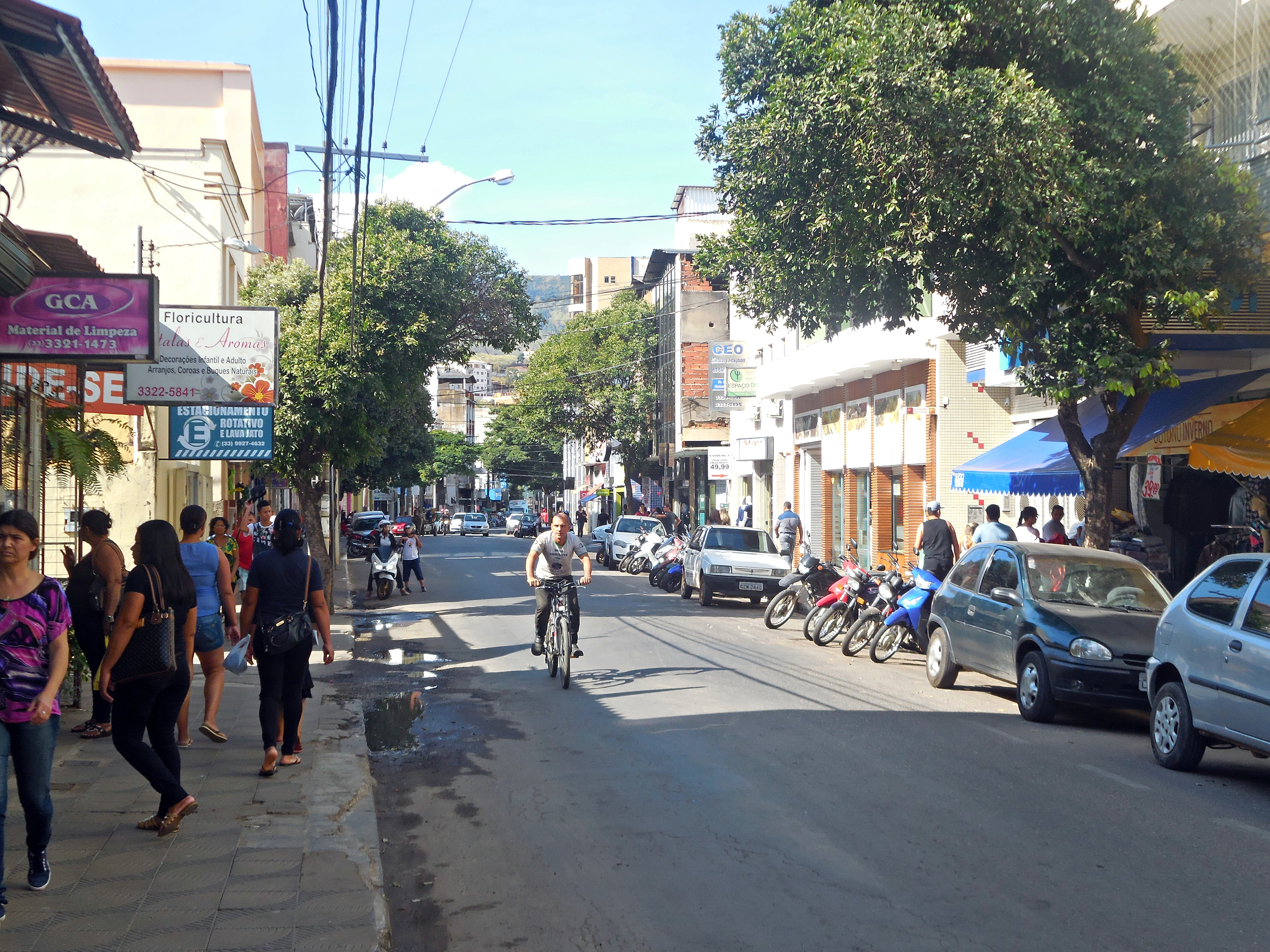 Stretch of the Raul Soares Street, in Caratinga, Minas Gerais, Brazil.